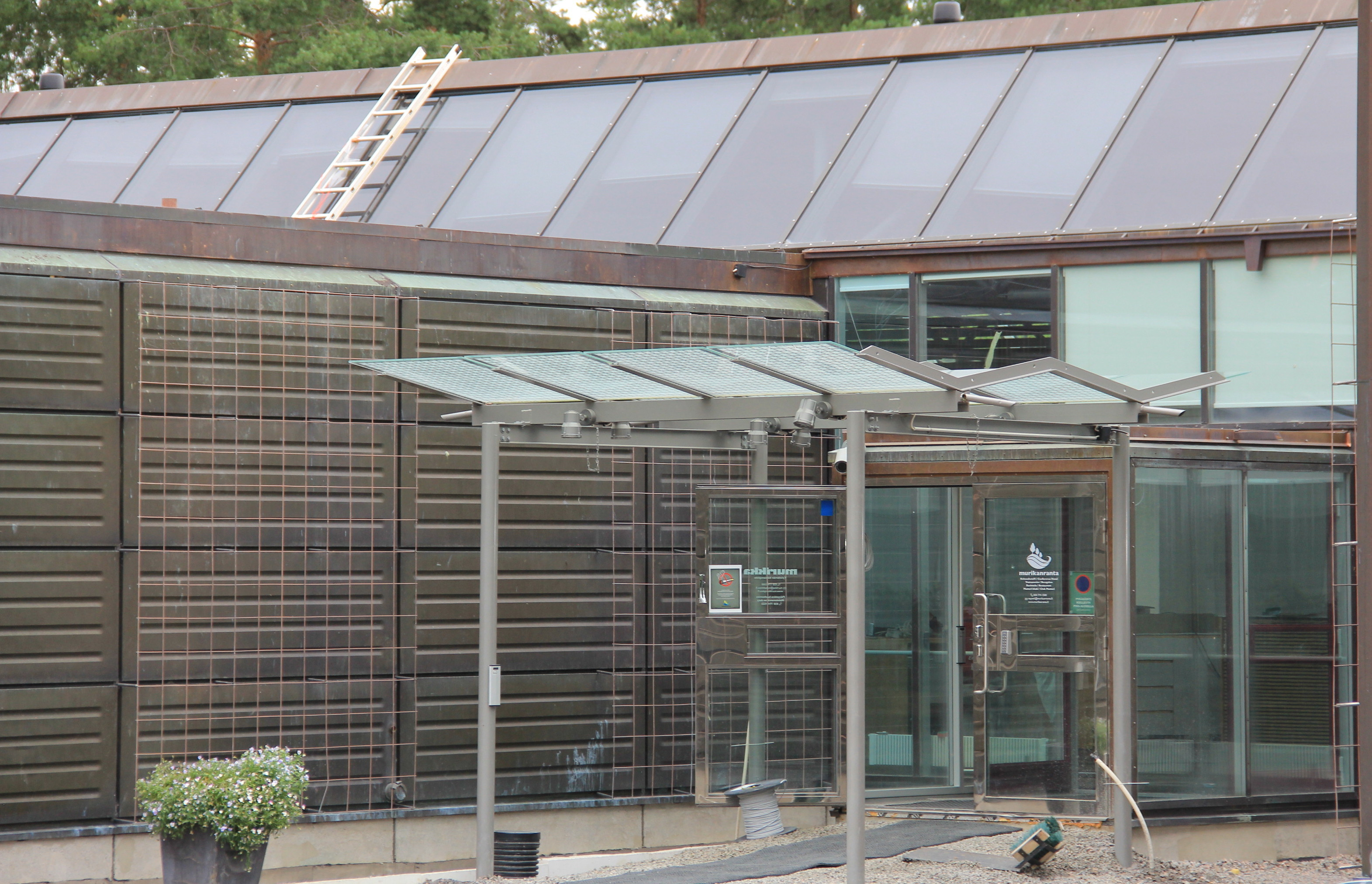 Murikka Institute, Teisko, Tampere, Finland. - Main entrance with canopy.